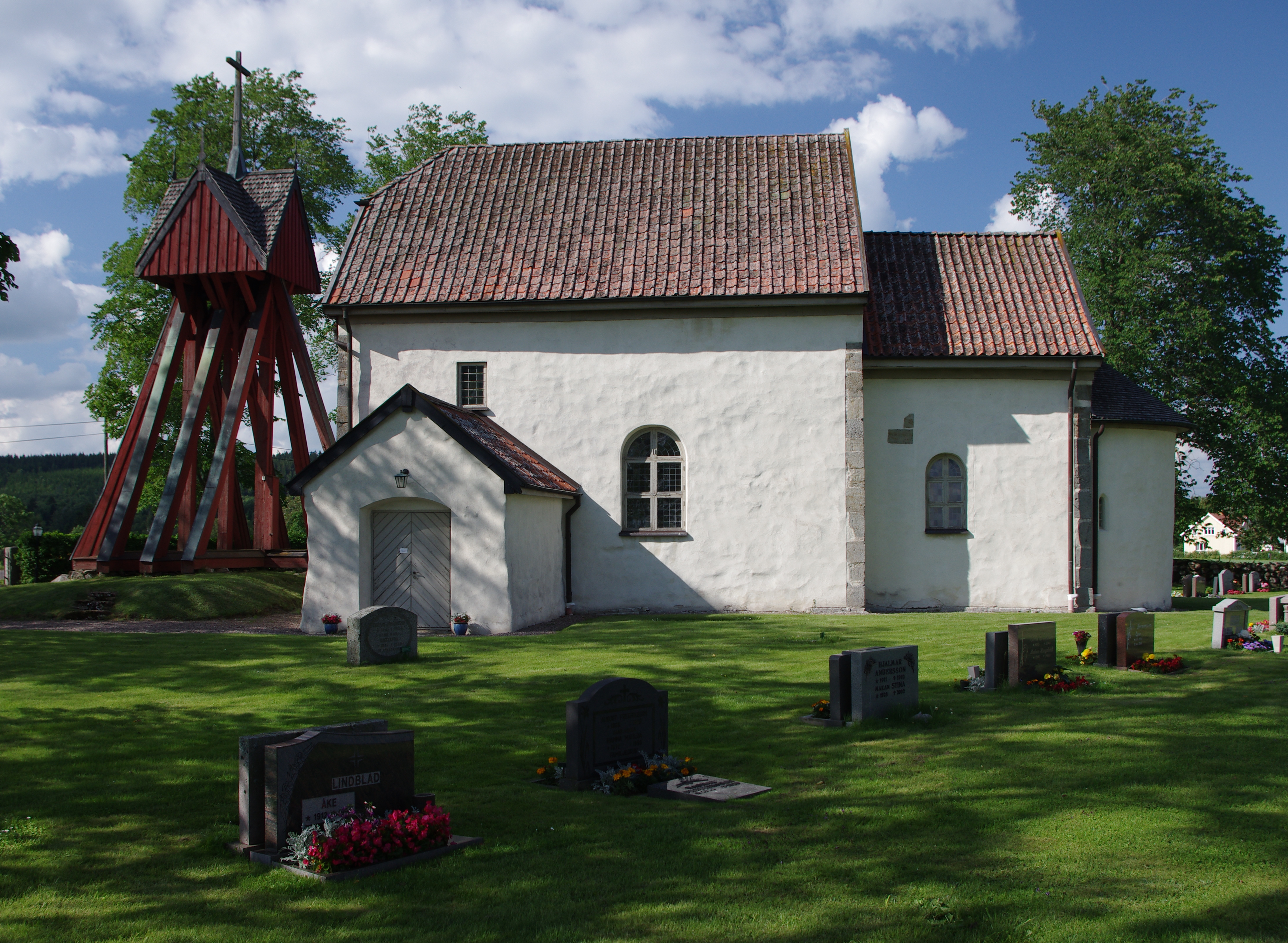 Östra Gerum church in Västergötland, Sweden.